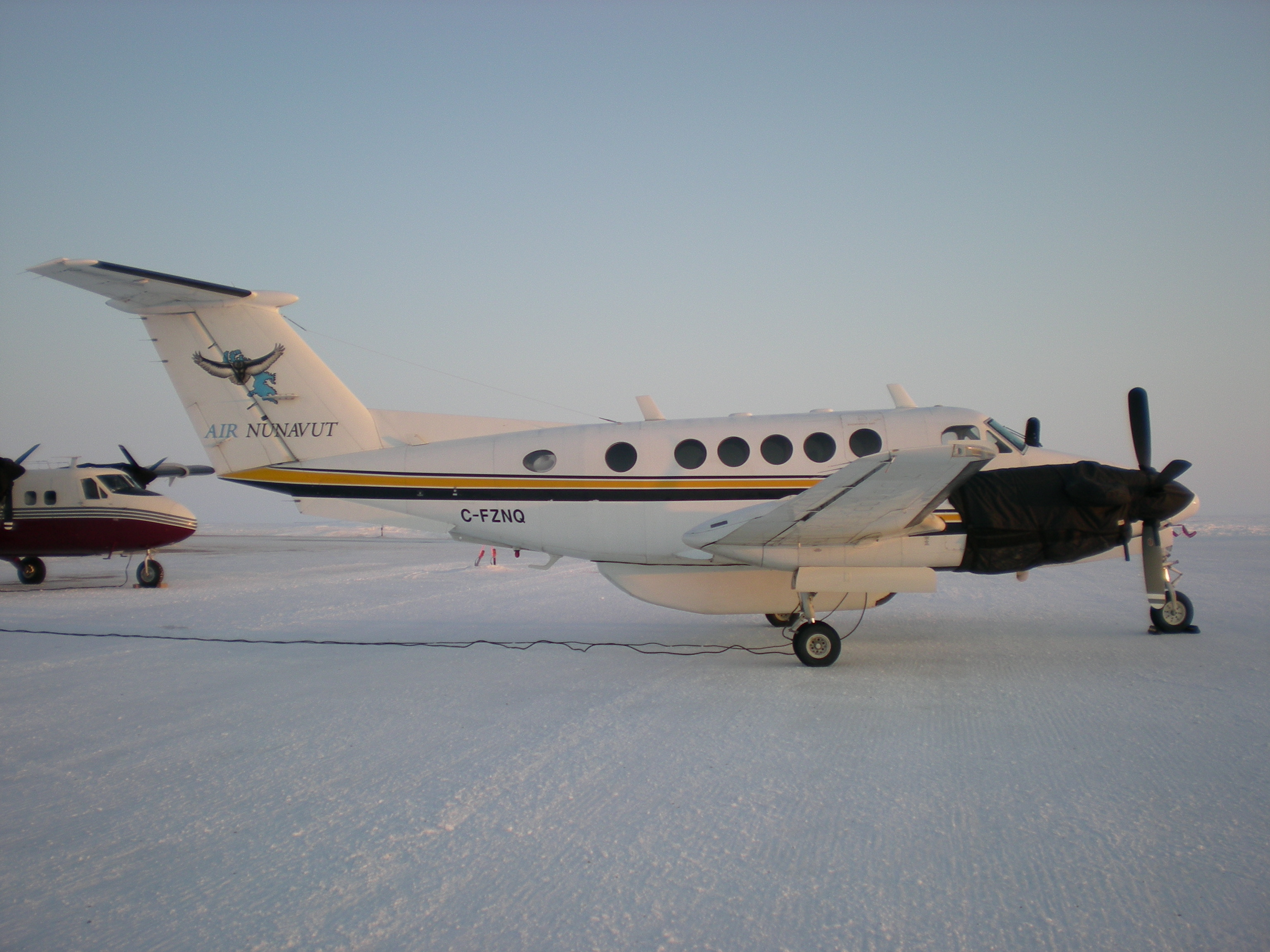 Air Nunavut Beech King Air 200, C-FZNR